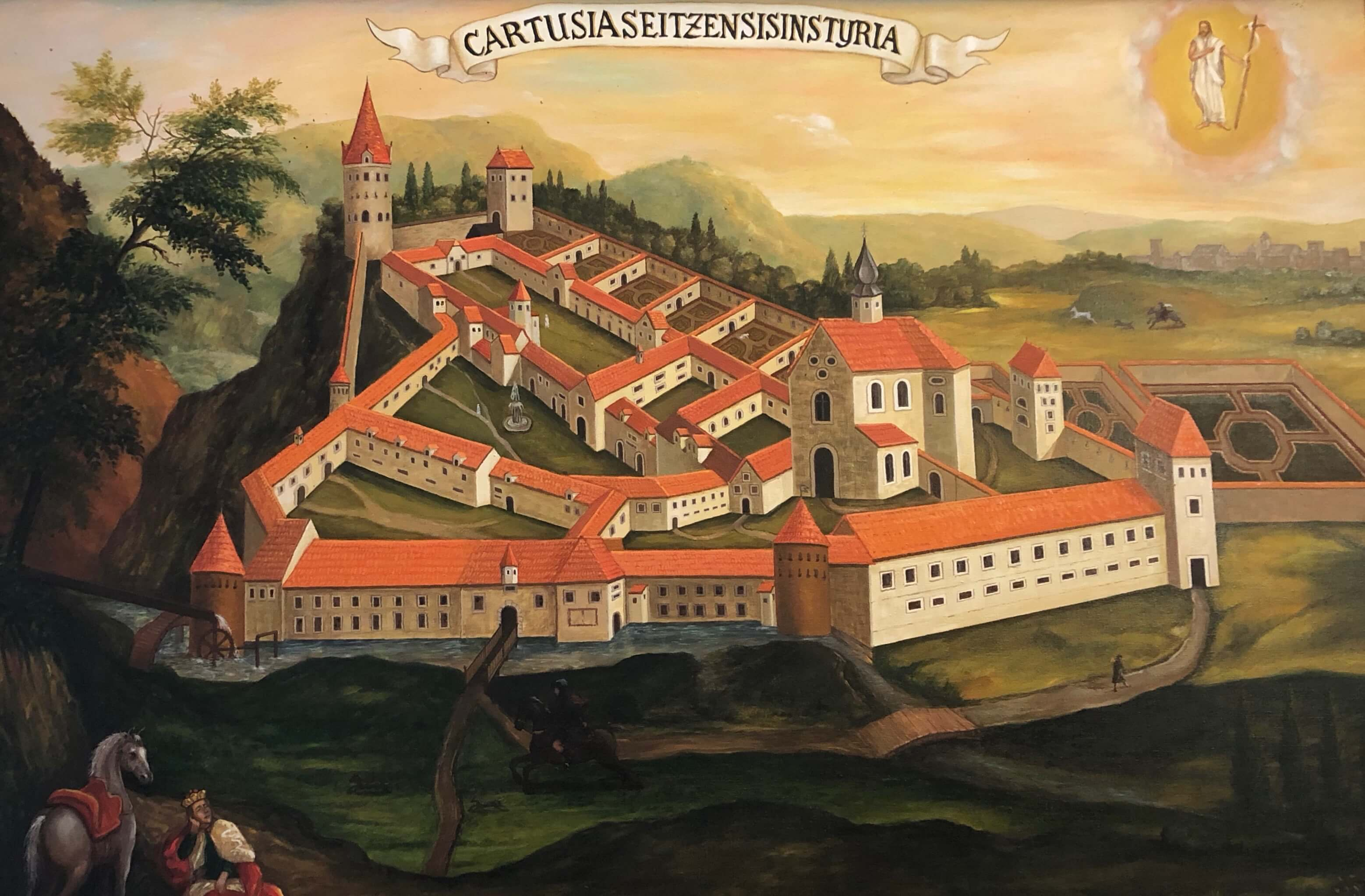 Representation of the Charterhouse of Žiče (Seitz, south of Gonobitz, Slovenian Styria) in 1730, copy in 2007 of the original at Klosterneuburg (Austria).